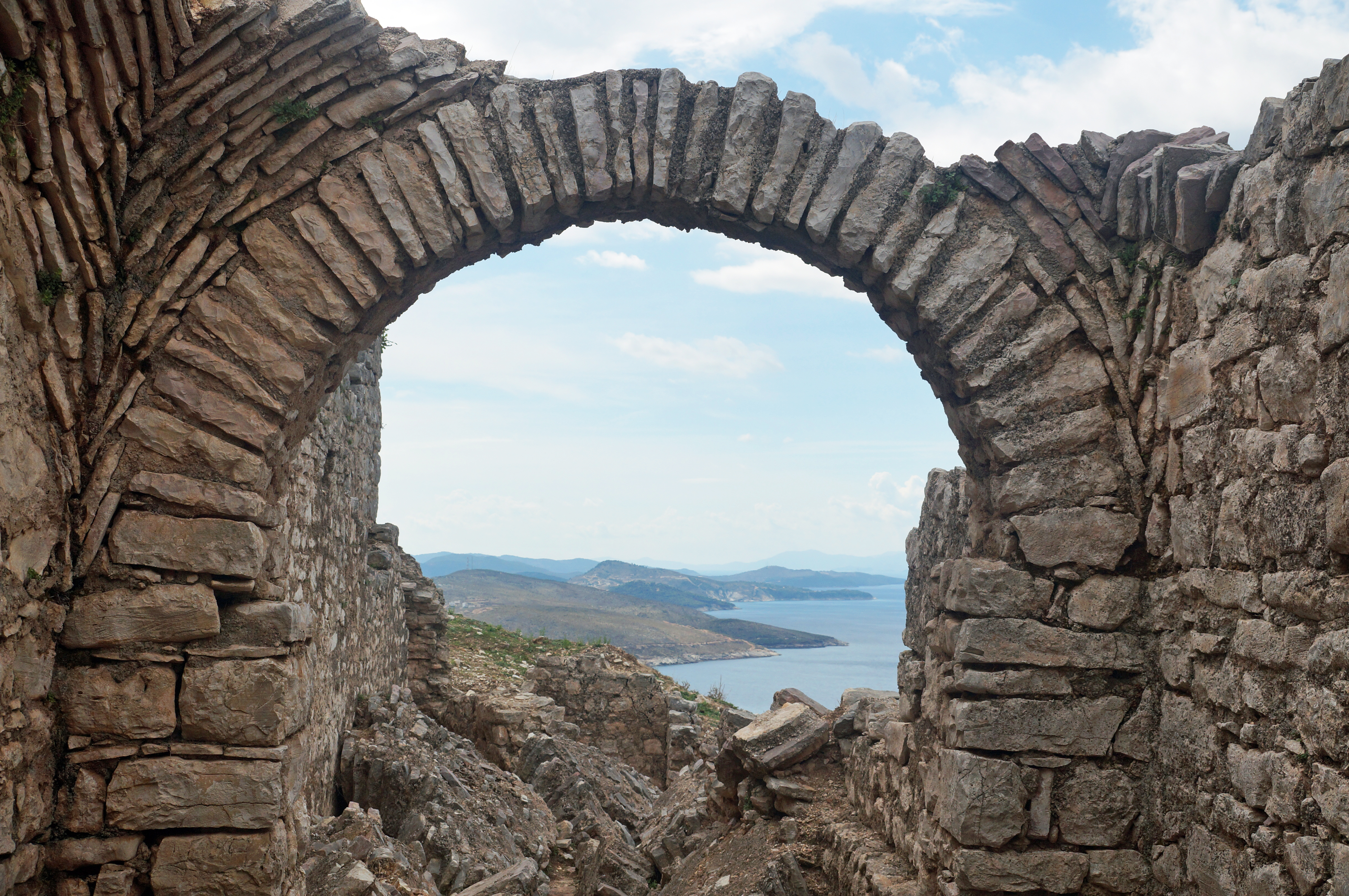 Ruins of the Monastery of the 40 Saints, Saranda, Albania